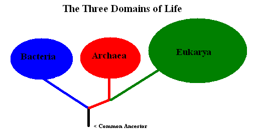 The Three Domains of Life